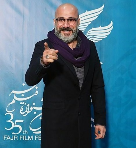 Day 4 of 35th Fajr International Film Festival at Mellat Pardis